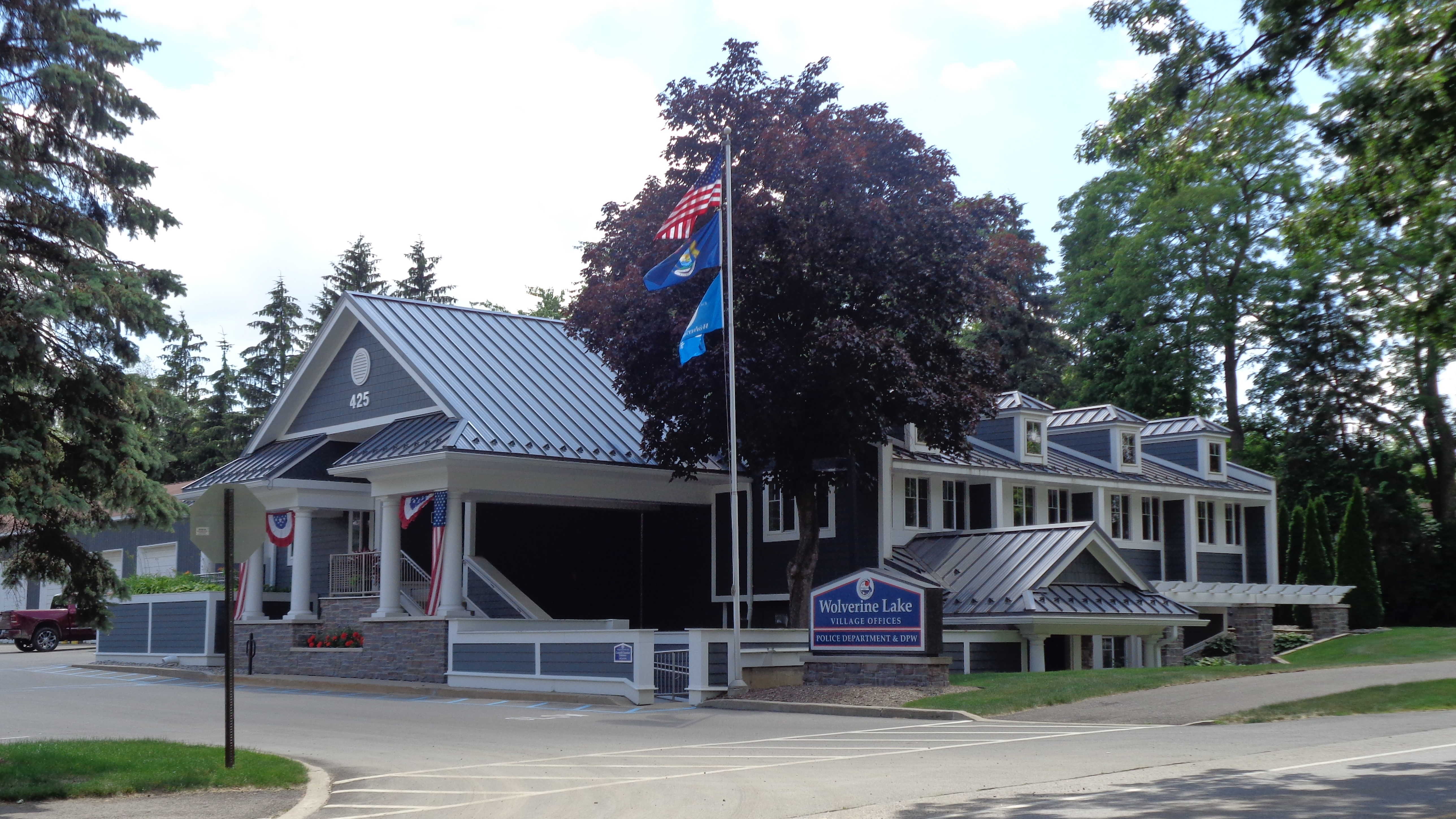 Wolverine, MI